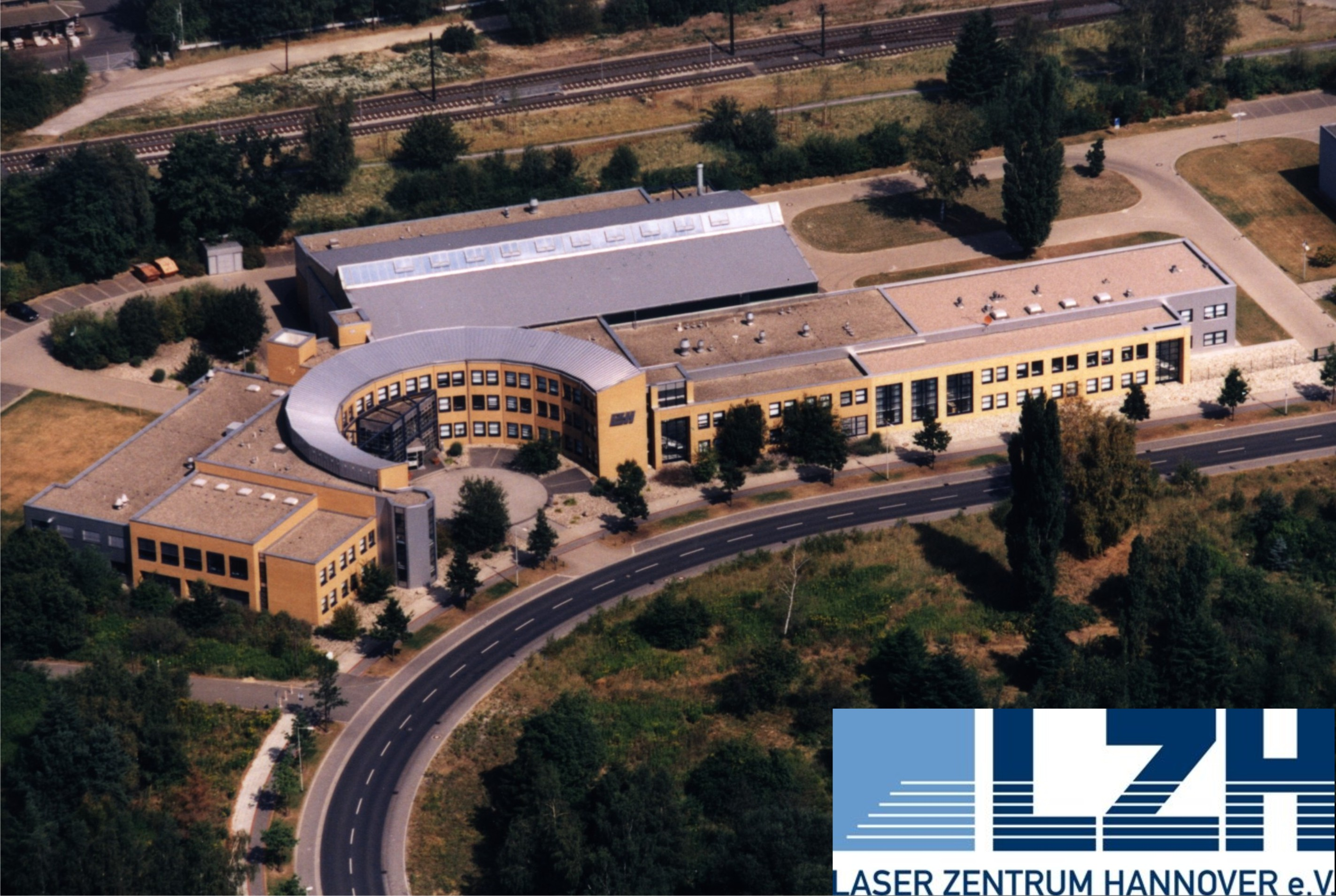 Aerial view of the Laser Zentrum Hannover e.V. (LZH) in Hannover-Marienwerder